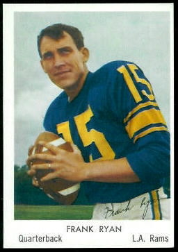 A 1959 promotional image of Los Angeles Rams player Frank Ryan.